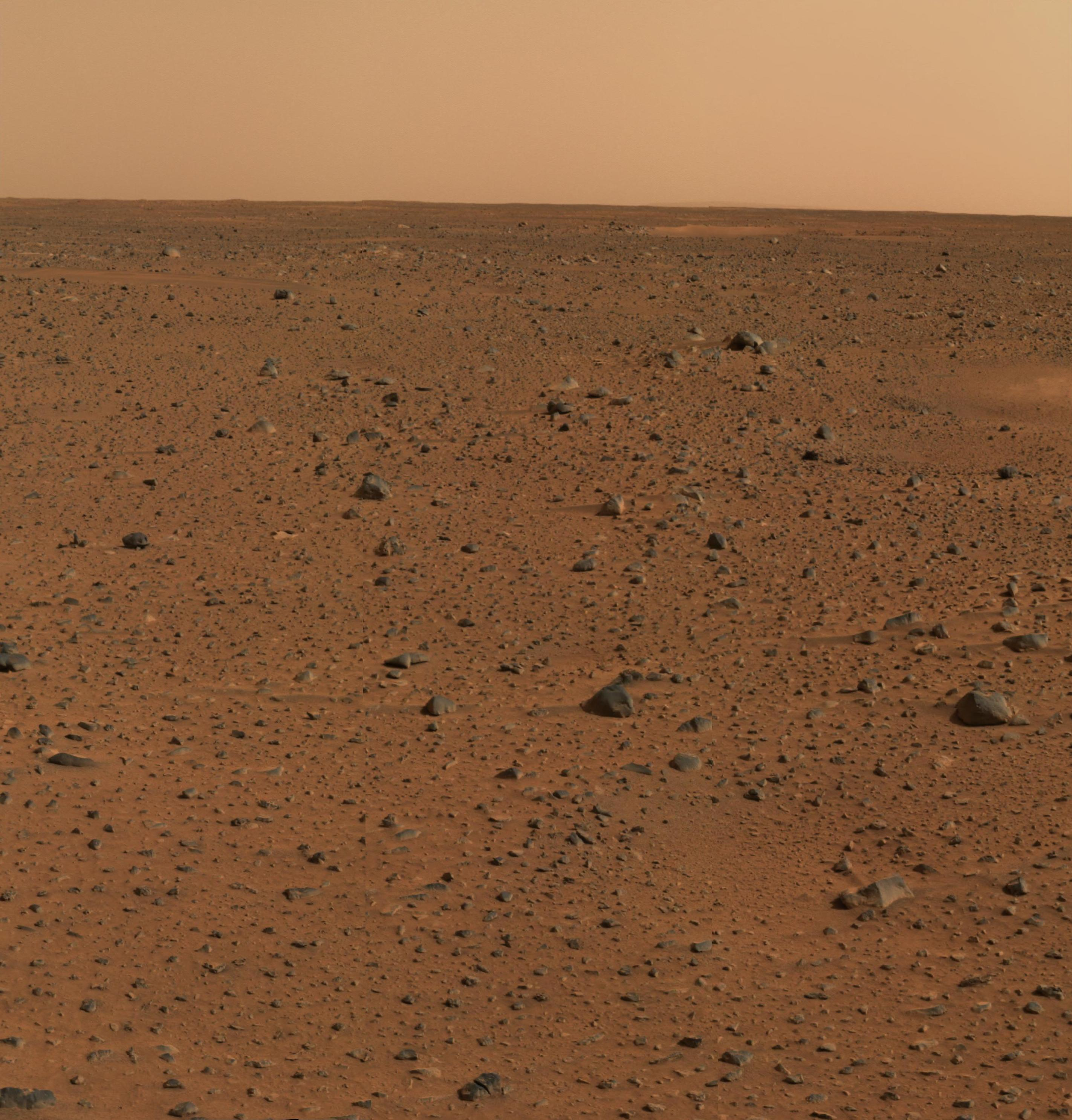 From website: "This is the first color image of Mars taken by the panoramic camera on the Mars Exploration Rover Spirit. It was the highest resolution image ever taken on the surface of another planet." This version has been cropped.